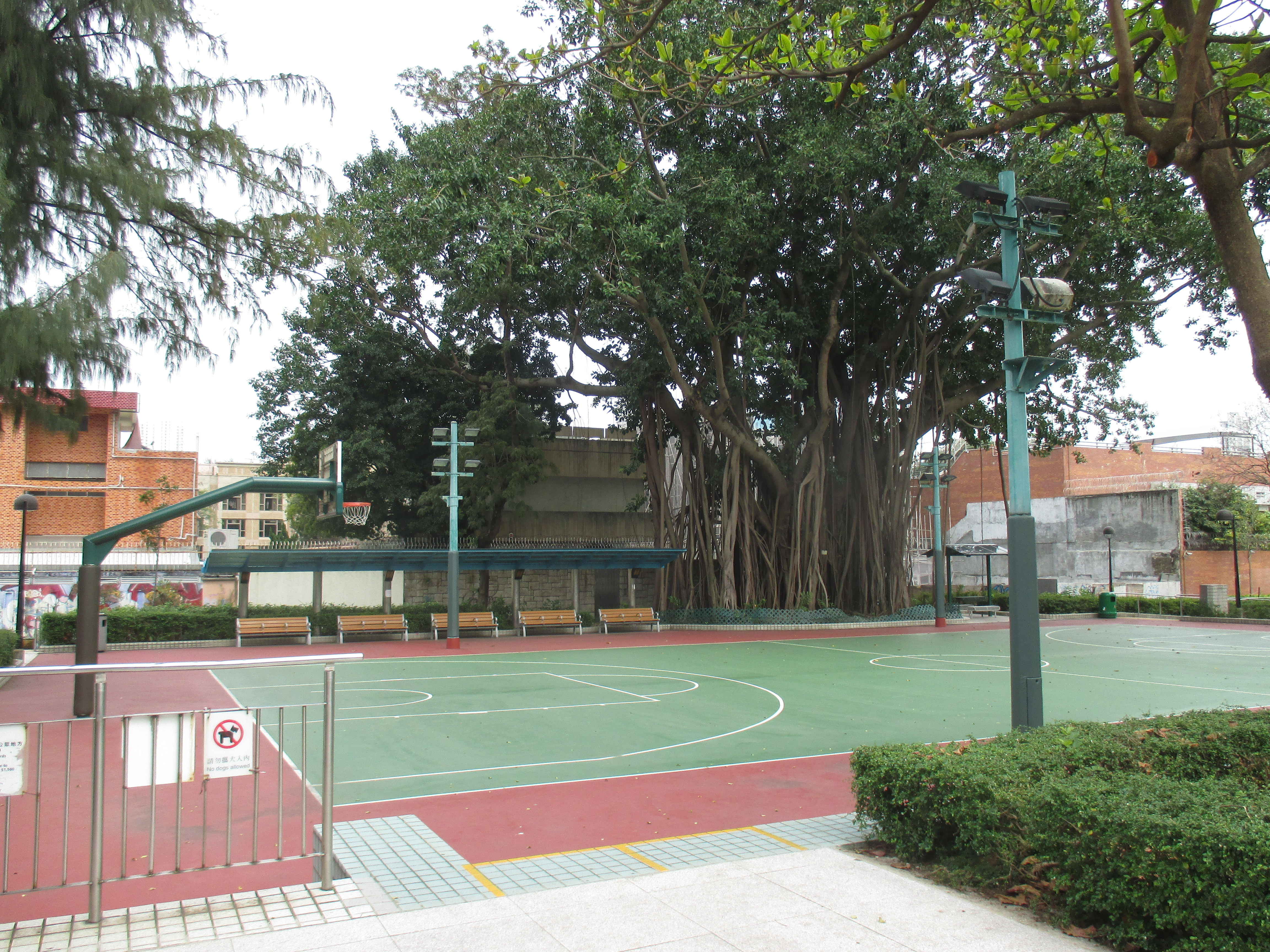 Rutland Quadrant Children's Playground